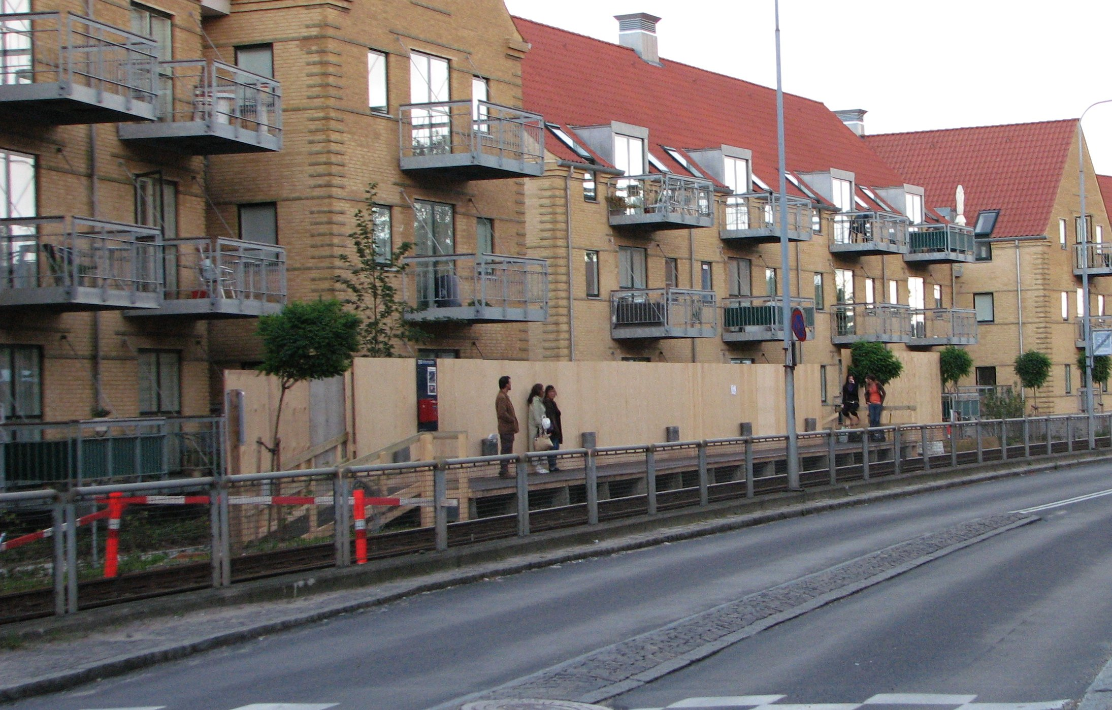 Svendborg railroad station, temporary stop near the main station building